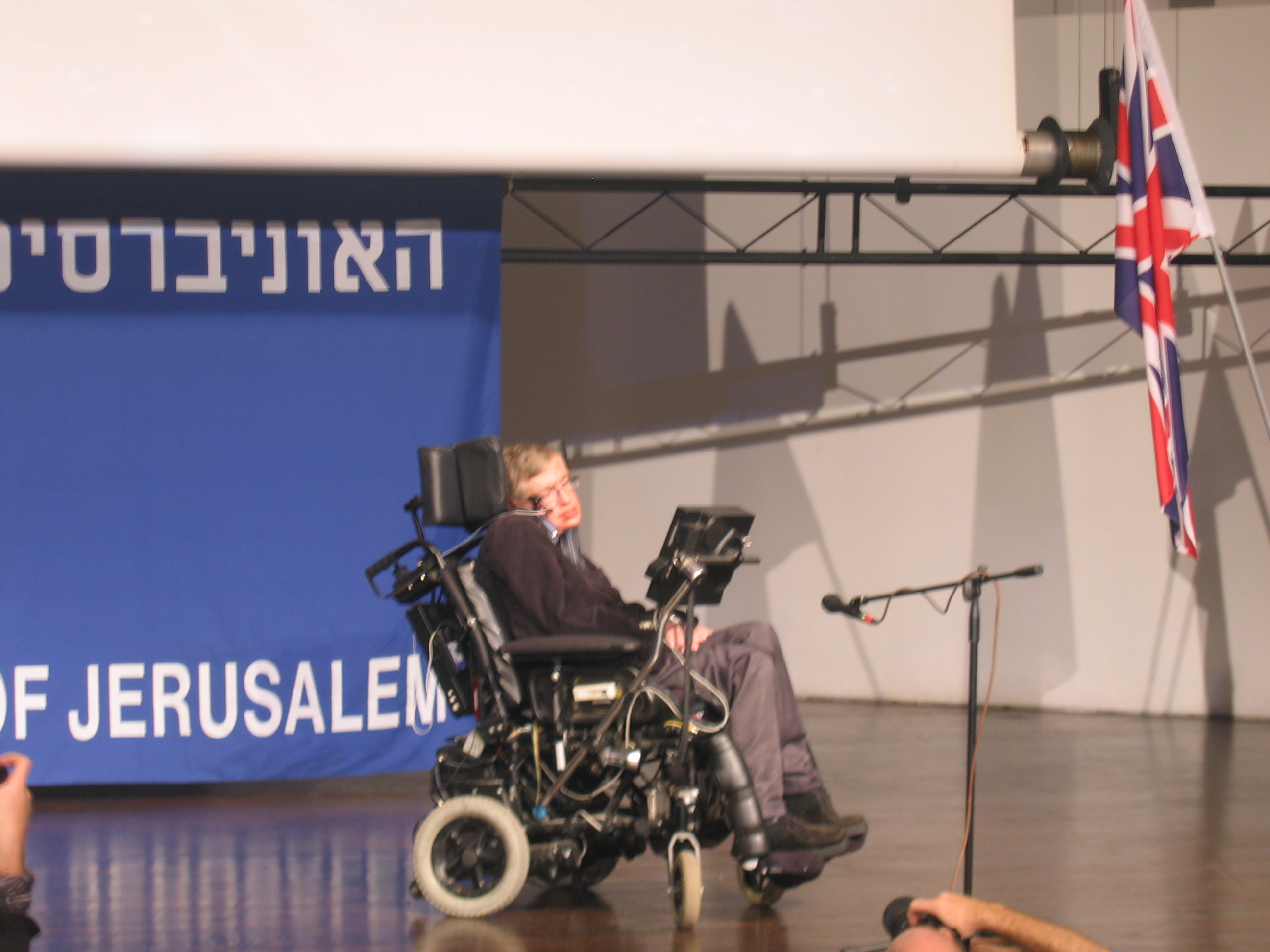 Stephen Hawking at a public lecture at the Hebrew University of Jerusalem, December 14, 2006.